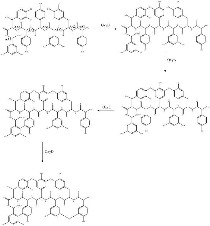 The coupling reactions involved the the cyclization of teicoplanin.